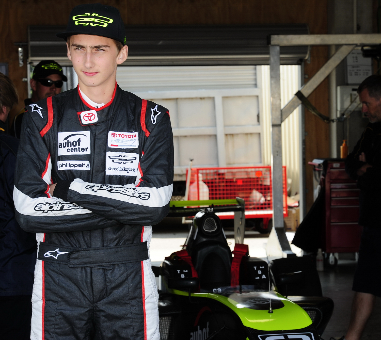 Ferdinand Habsburg